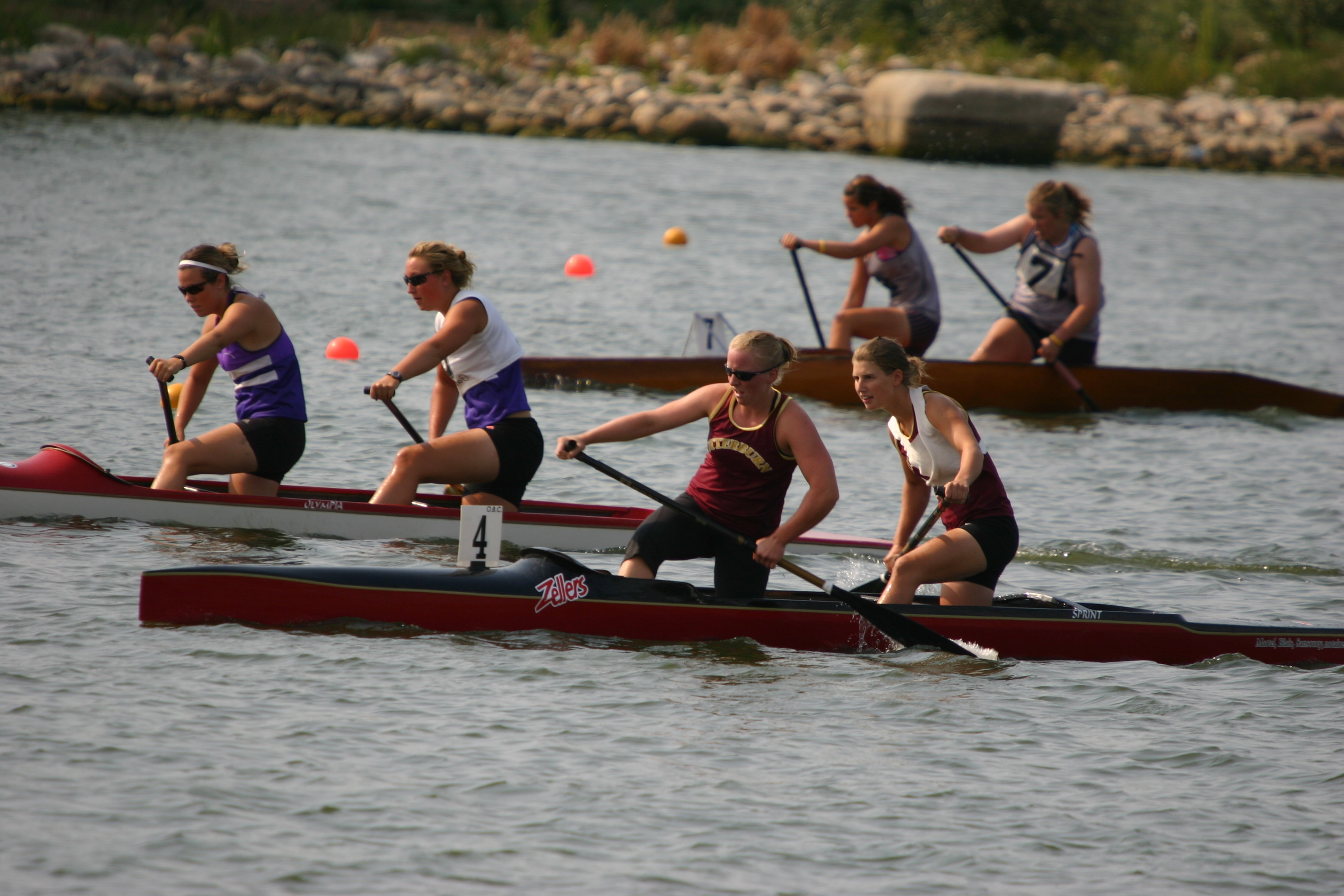 Sprint canoeing, c-2